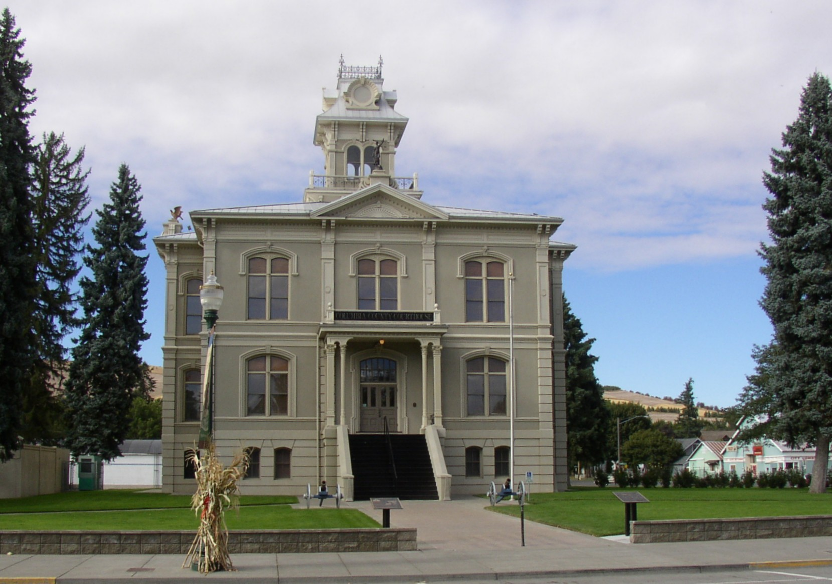 Photograph of historic courthouse in Dayton, Washington, USA.